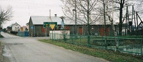 Remiza OSP Pogorzel